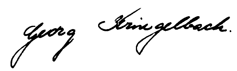 The signature of Georg Kringelbach at his second marriage in 1953.